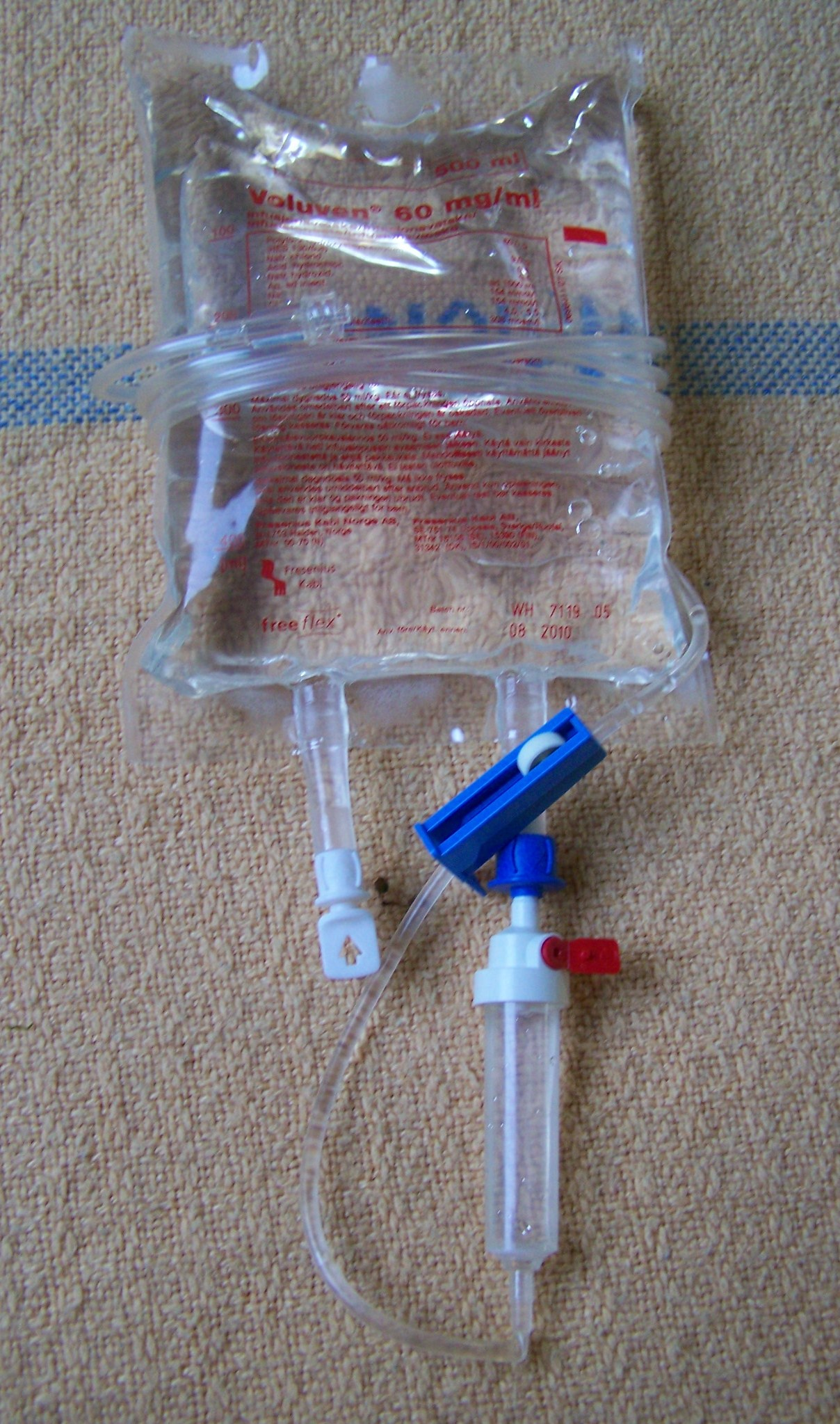 Voluven 60mg/ml, 500ml. Hydroxyethyl starch (HES/HAES) is a nonionic starch derivative. It is one of the most frequently used volume expanders used to prevent shock (circulatory collapse). (Sorry! forgot to change title)